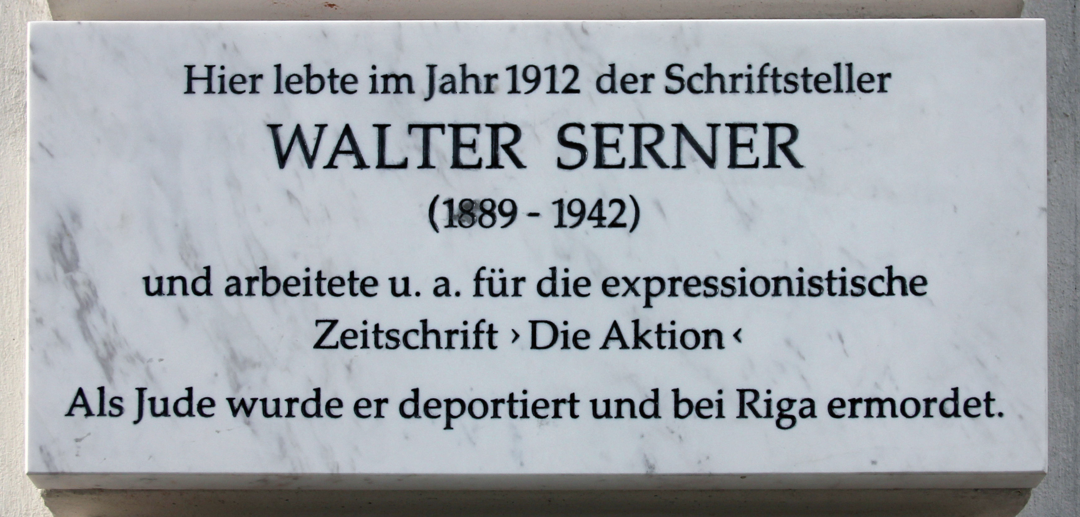 Memorial plaque, Walter Serner, Augsburger Straße 21, Berlin-Charlottenburg, Deutschland